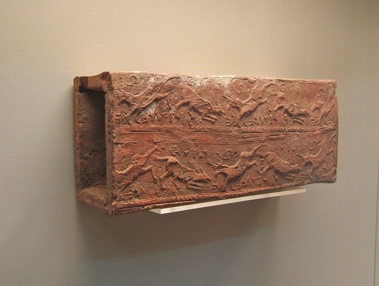 Roman box-flue tile found in Britain. Though highly decorated, the tile would not have been visible in use, as it was part of a heating system. Length 40.3 cm. British Museum, London. PE Dept. 1973.4-3.72